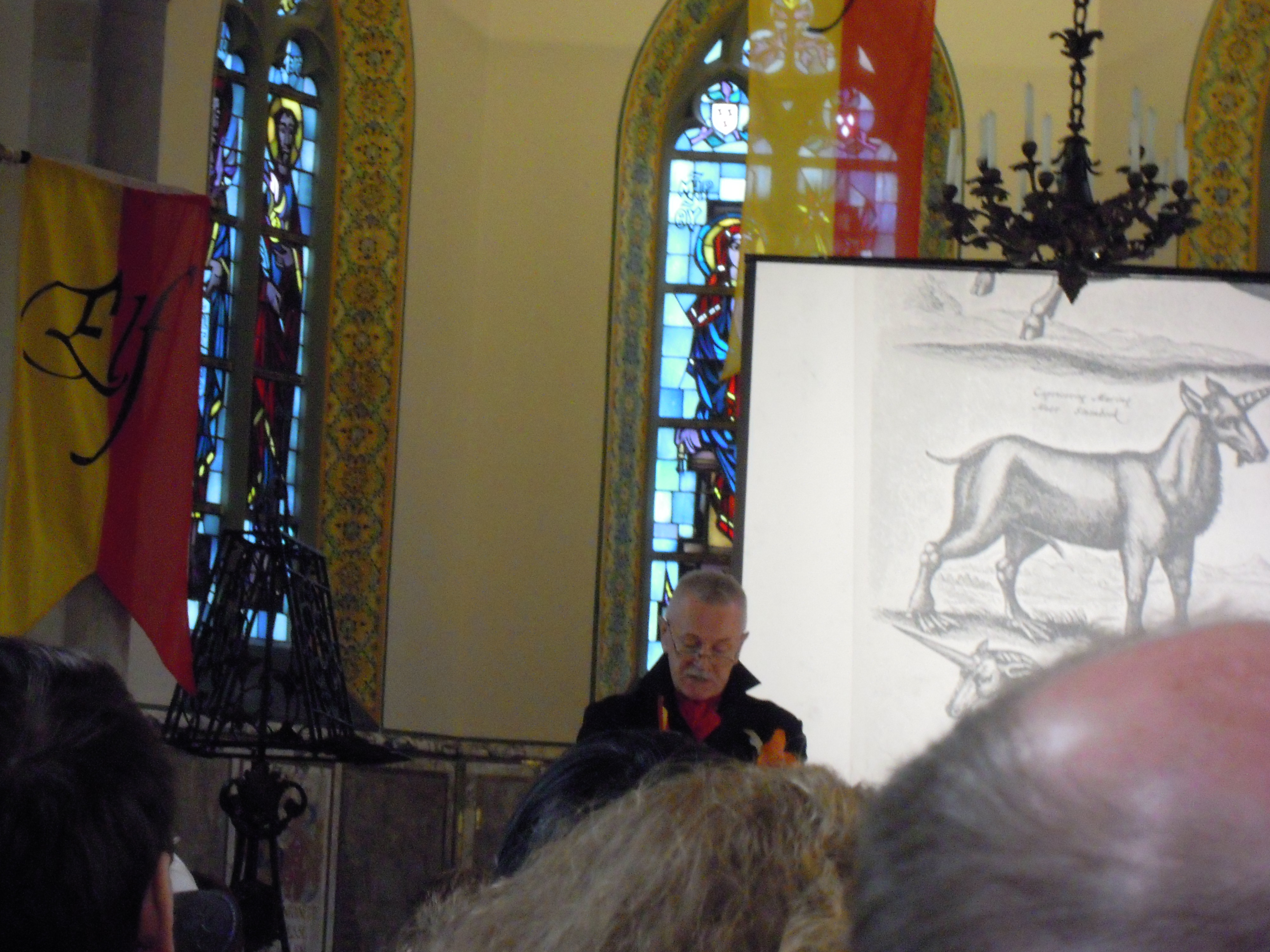 Professor Roland Rotherham at the Elf Fantasy Fair in Haarzuilens, The Netherlands in 2011